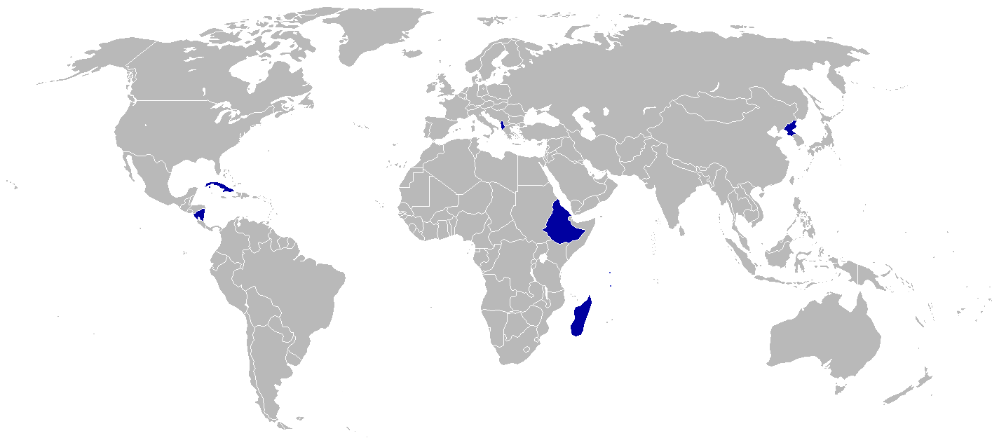 1988 Summer Olympics boycotting countries (blue color on the map)